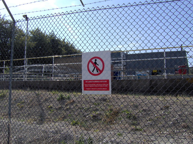 Security fence and sewage works, Harwell site. The notices on the fence make it very clear that trespassers are unwelcome. The sign reads "NO UNAUTHORISED ACCESS This is a protected site under Section 128 of the Serious Organised Crime and Police Act 2005. Trespass on the site is a criminal offence". Security at the Harwell nuclear complex is handled by the Civil Nuclear Constabulary - who are armed.